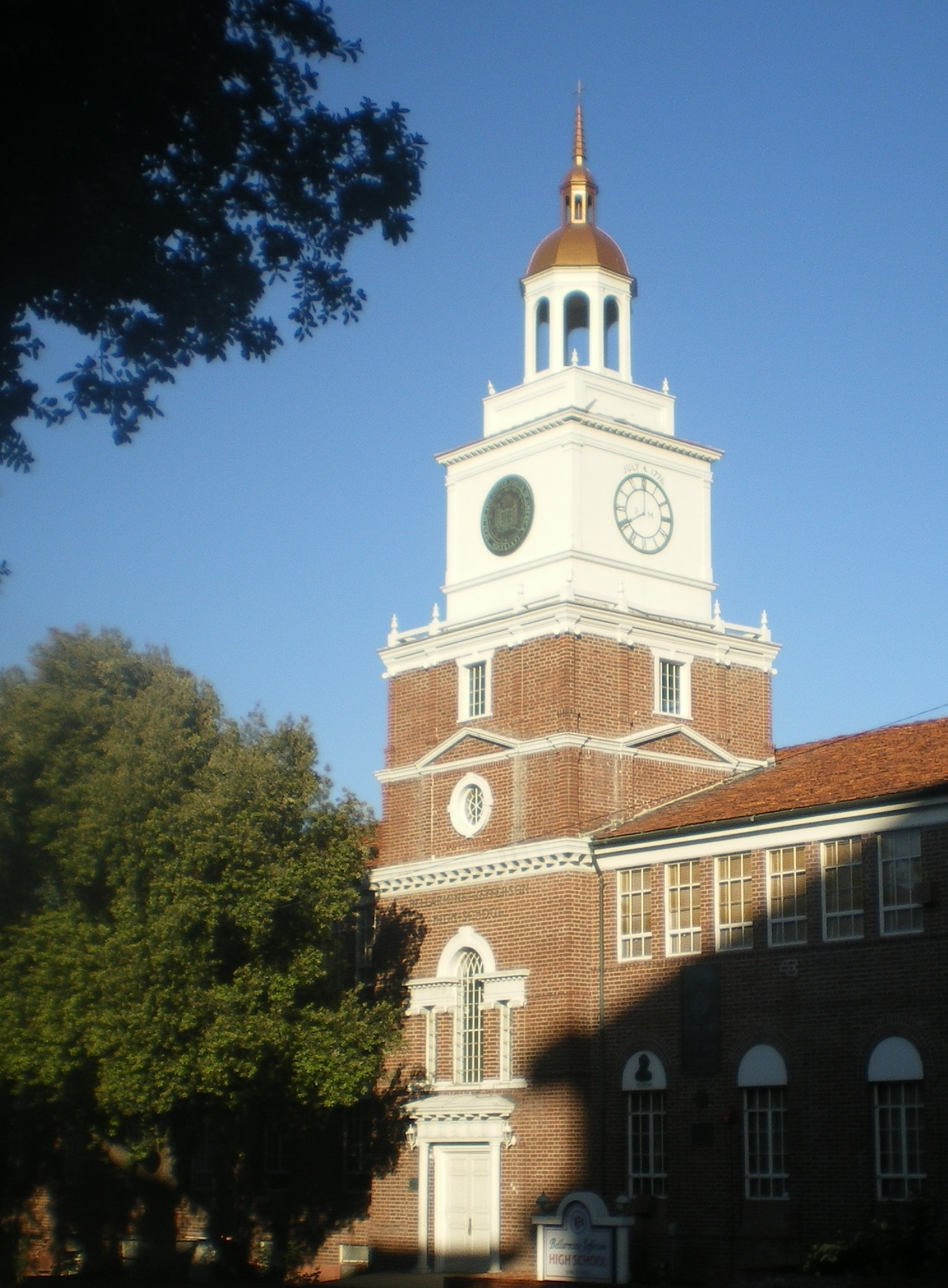 Bellarmine-Jefferson High School (Burbank, Calif) Bellarmine-Jefferson High School (Burbank, Calif)